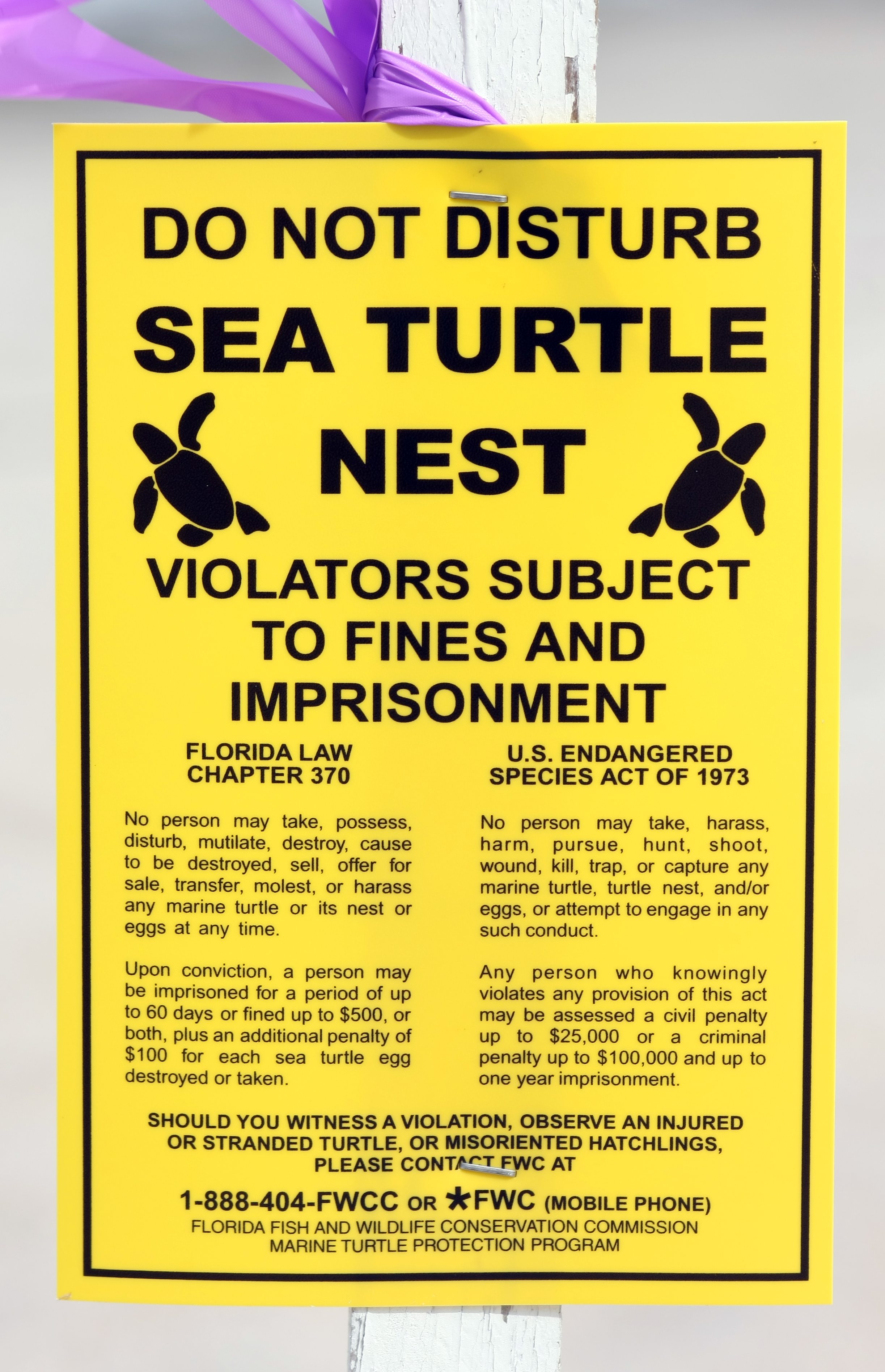 Legal posting related to sea turtles and their nests in Boca Raton, Florida.